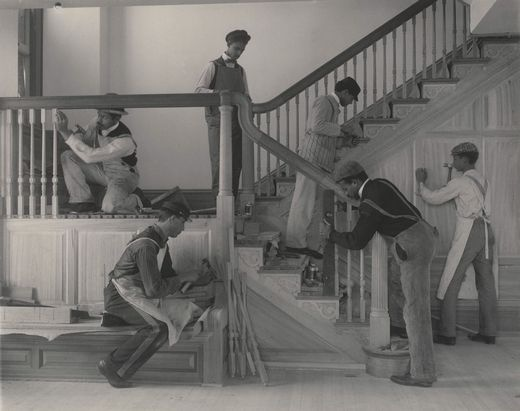 Stairway of the Treasurer's Residence